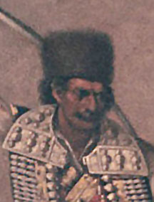 Bajo Pivljanin, head shot